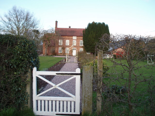 Green Farm, Poulton. No longer a working farm,see other photo in this square which shows barn conversion